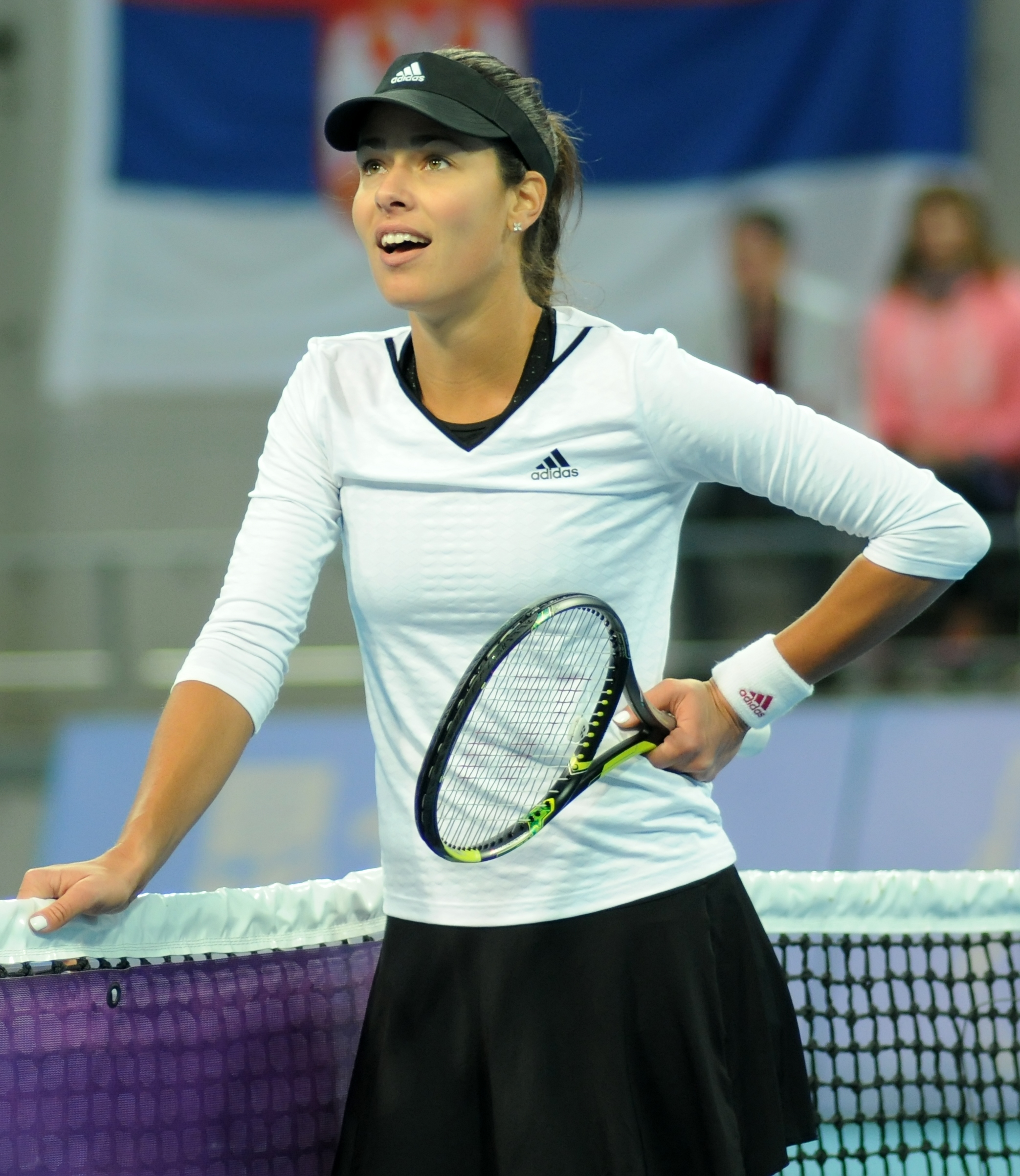 Ana Ivanović at the 2014 China Open